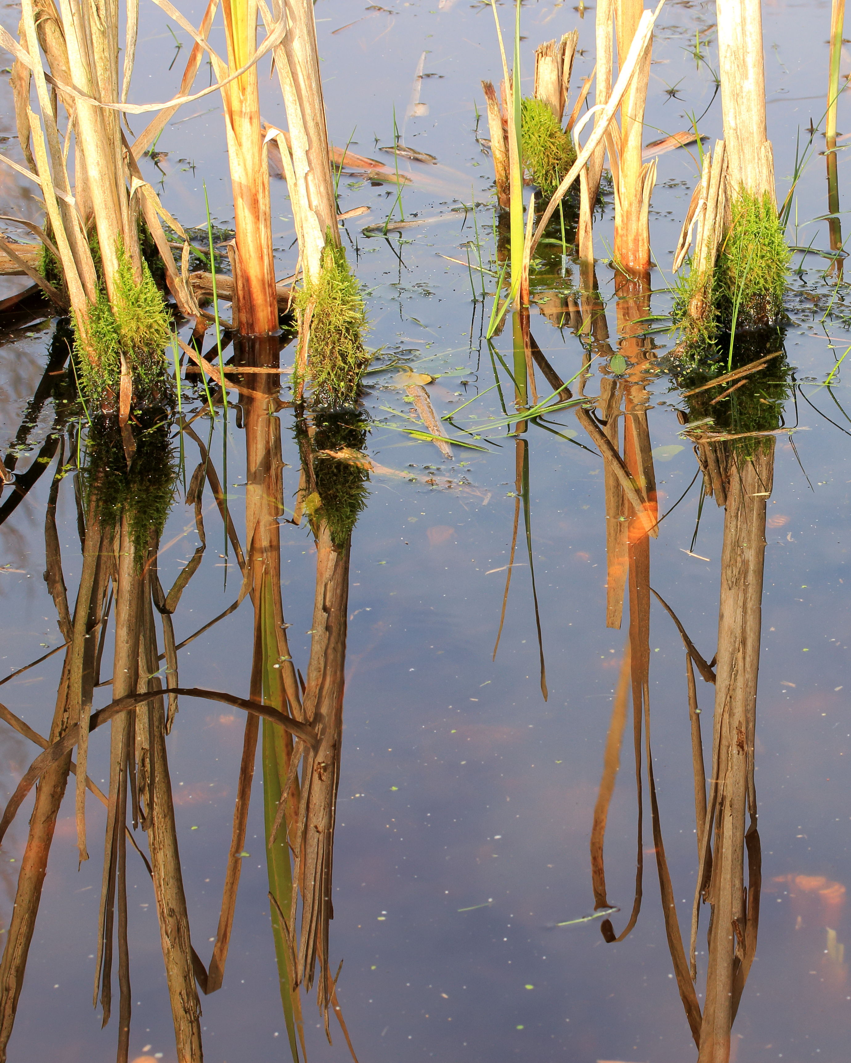 Moss on old stems of the bulrush (Typha latifolia). Location, The Famberhorst.